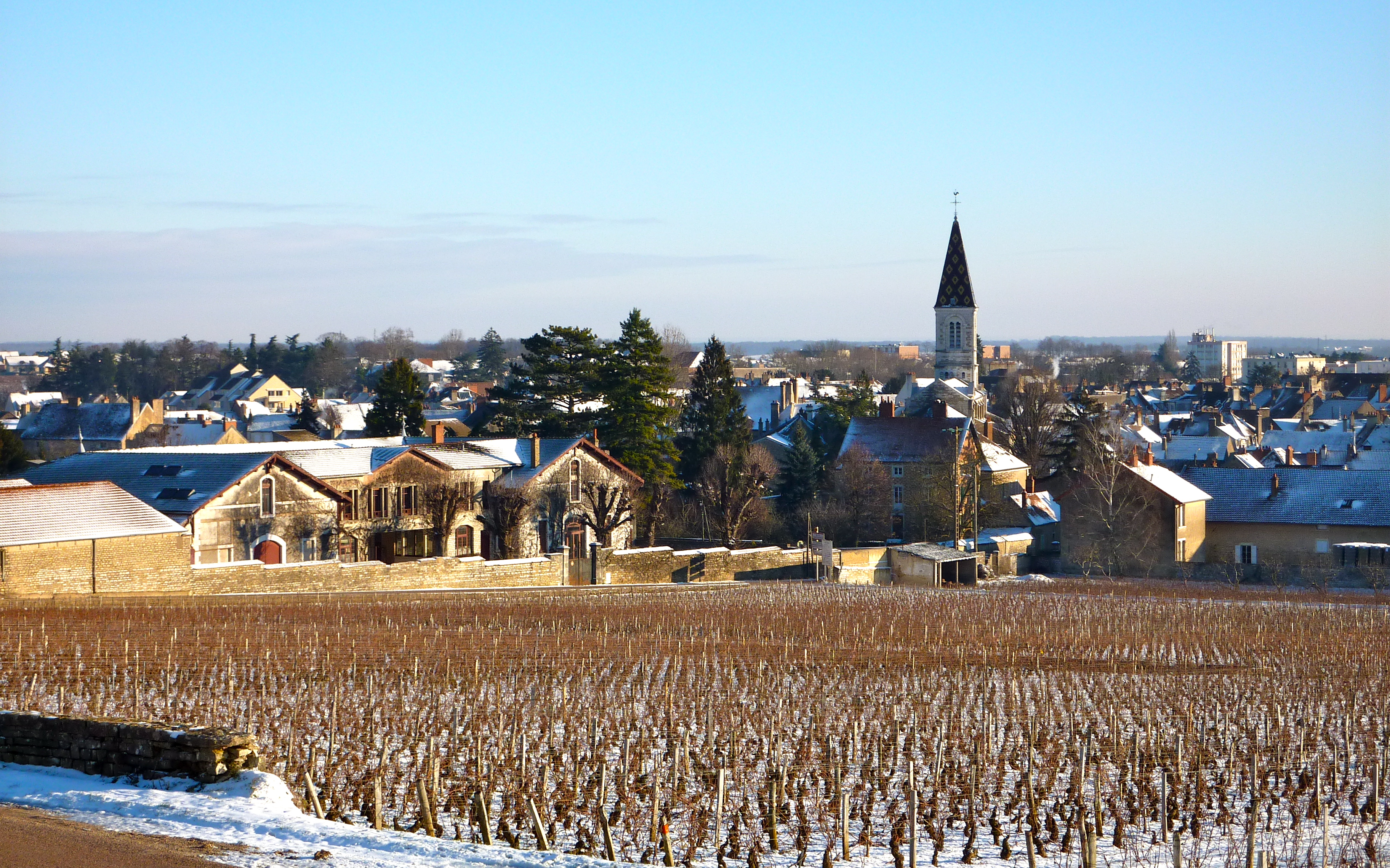 A snapshot of the town of Nuits-saint-Georges (Burgundy - France) under the snow taken at christmas 2010